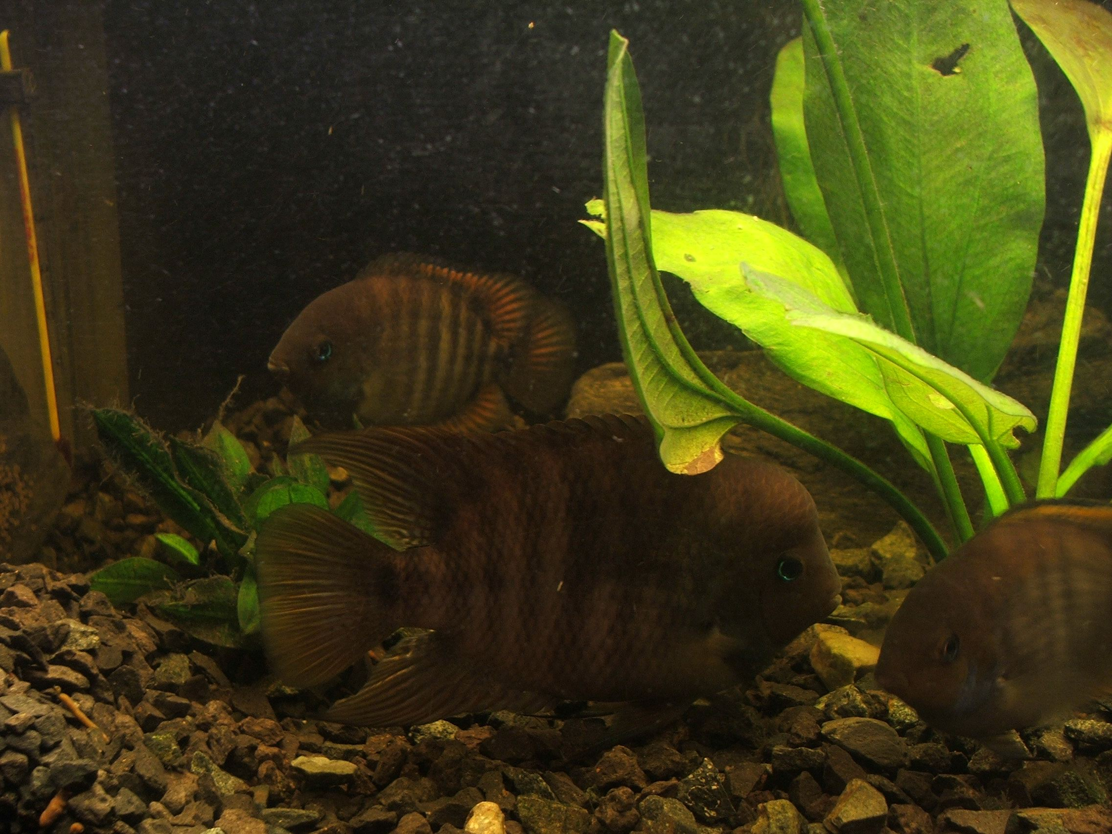 Archocentrus sajica, one pair of fish is protecting eggs